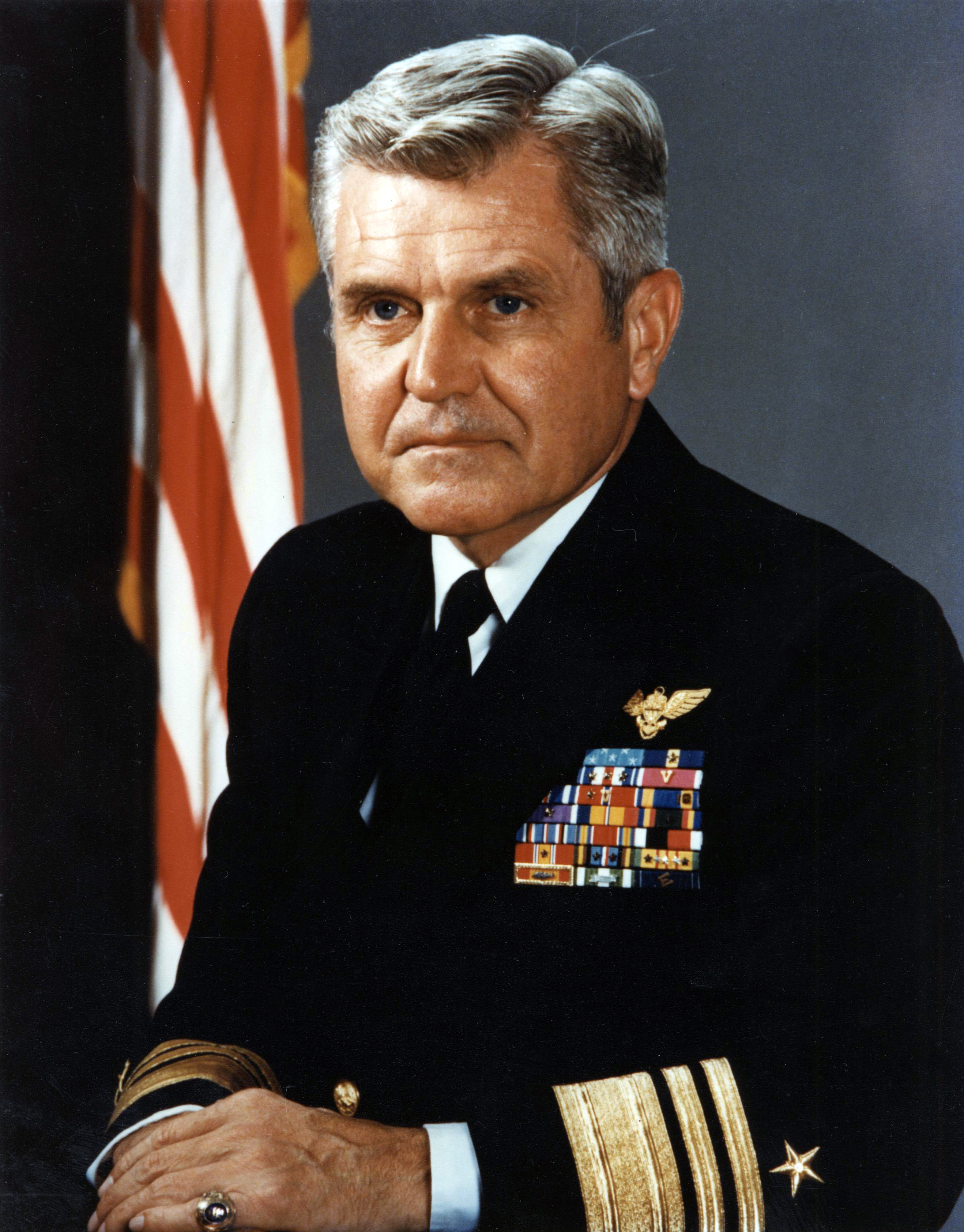 Navy File Photo - President of the U.S. Naval War College, Vice Adm. James Bond Stockdale, USN. U.S. Navy photo (RELEASED)